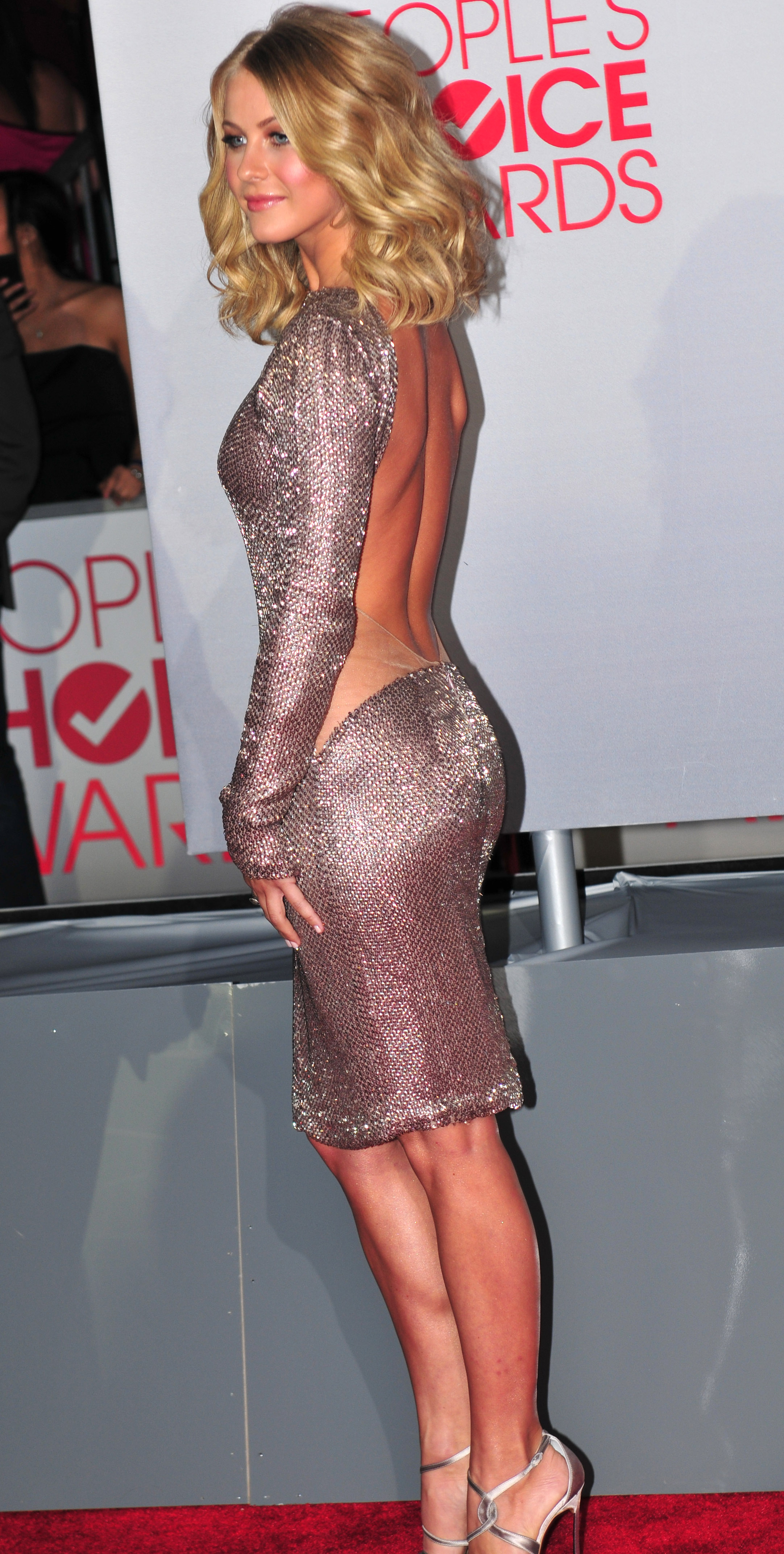 Julianne Hough on the red carpet at the 38th People's Choice Awards on January 11, 2012, at the Nokia Theatre in Los Angeles, California. (JJ Duncan/ )